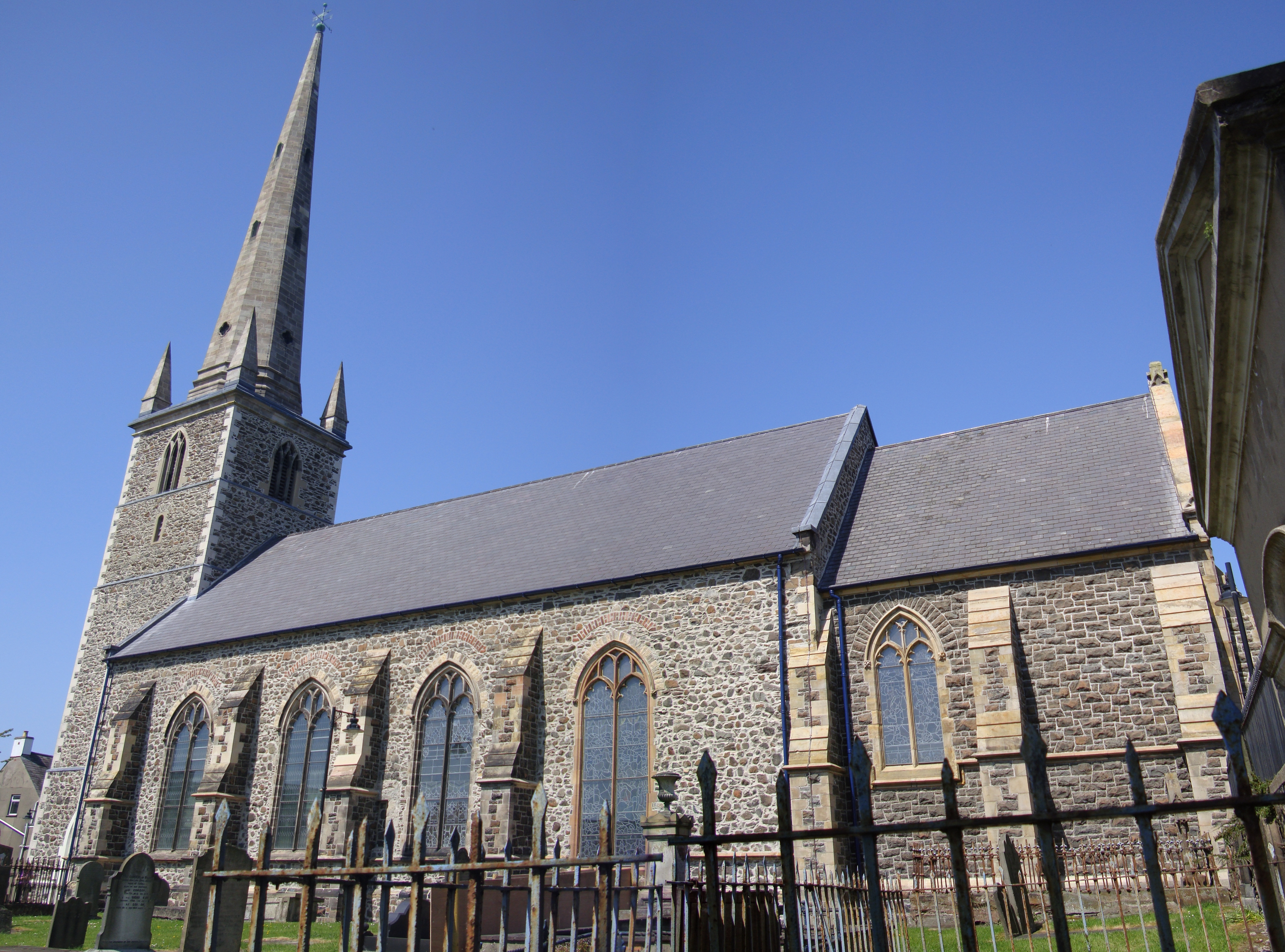 Composite photograph of Christ Church Cathedral, Lisburn, Northern Ireland